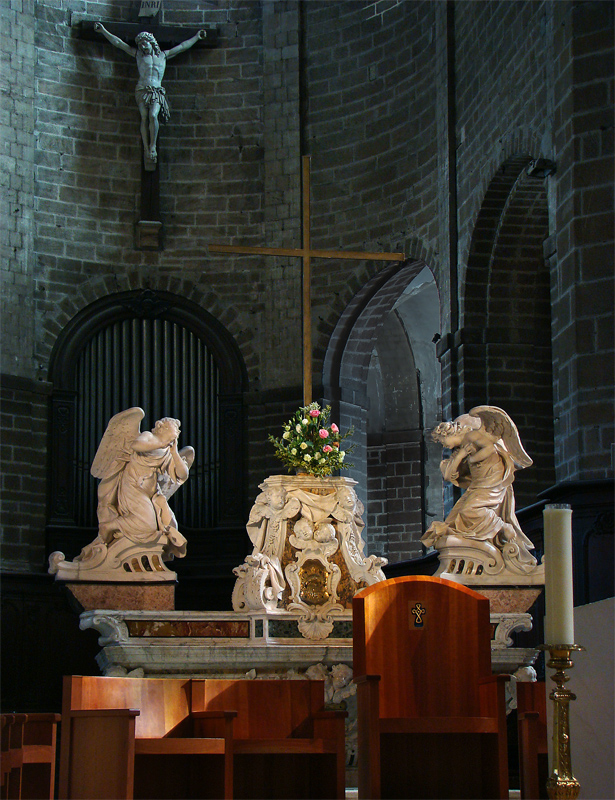 St. Peter's Cathedral, Vannes, Morbihan, Bretagne, France. The main altar.